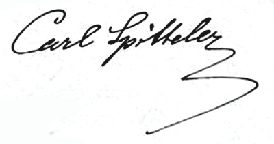 Carl Spitteler signature, Nobel laureate in Literature 1919